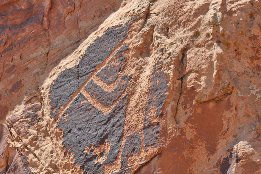 Petroglyph of a flute player, identified with the mystical figure "Kokopelli", Dinosaur National Monument, Utah, USA. The petroglyph is carved into "desert varnish" a patina on sandstone rocks.